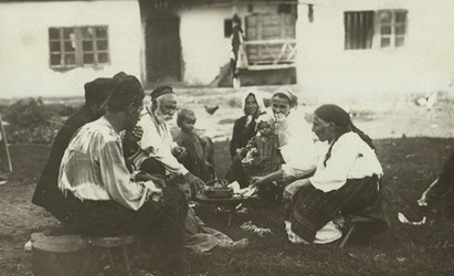 Bulgaria